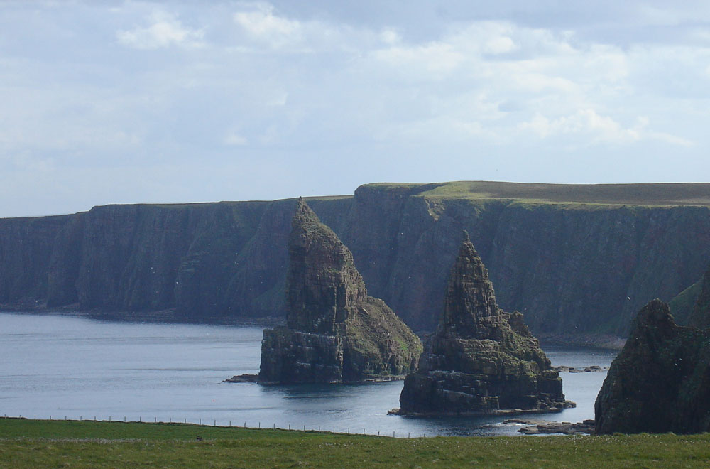 Duncansby Stacks, rock pinnacles to the immediate south of Duncansby Head